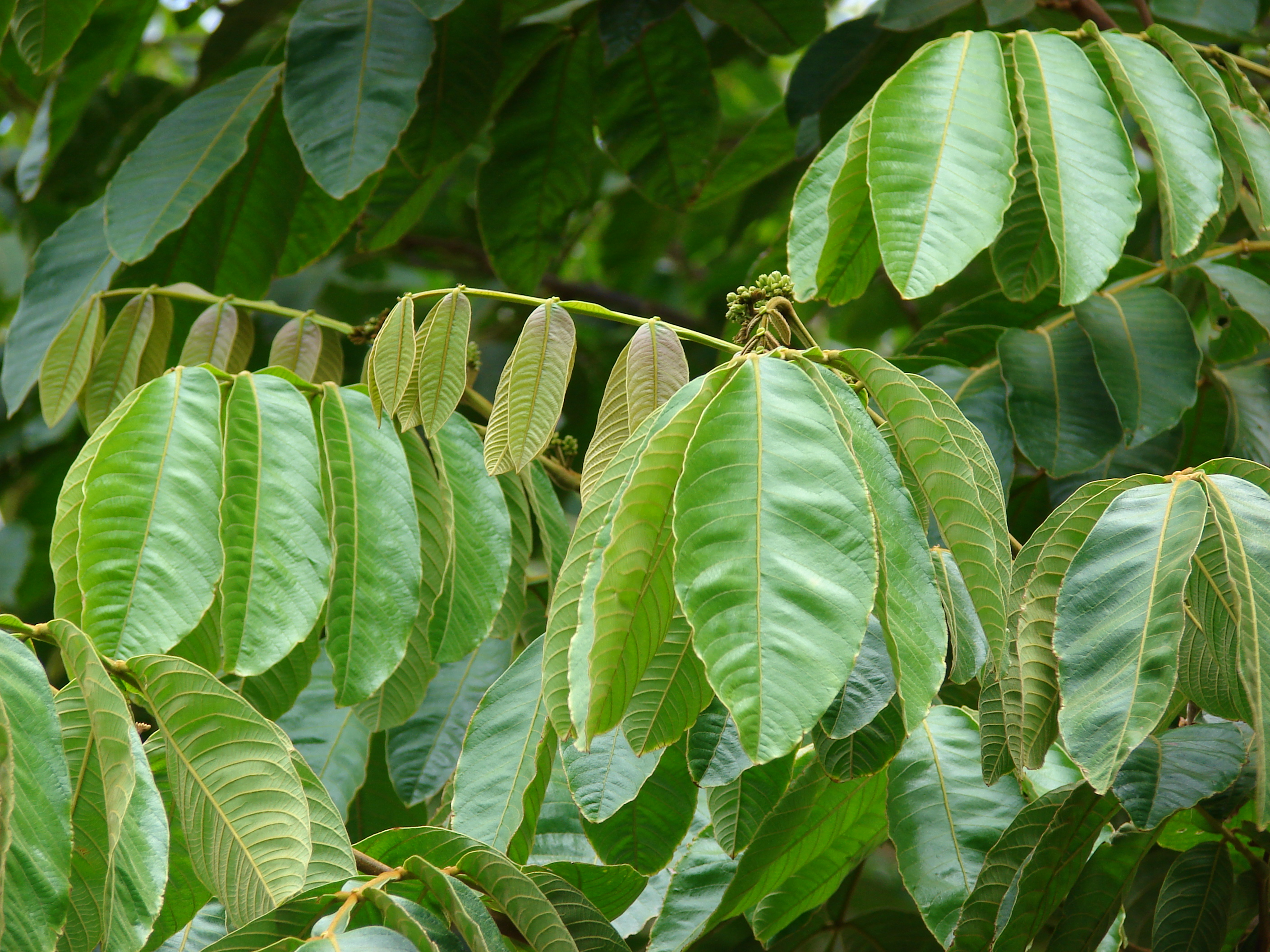 Inga feuillei (leaves). Location: Maui, Enchanting Gardens of Kula